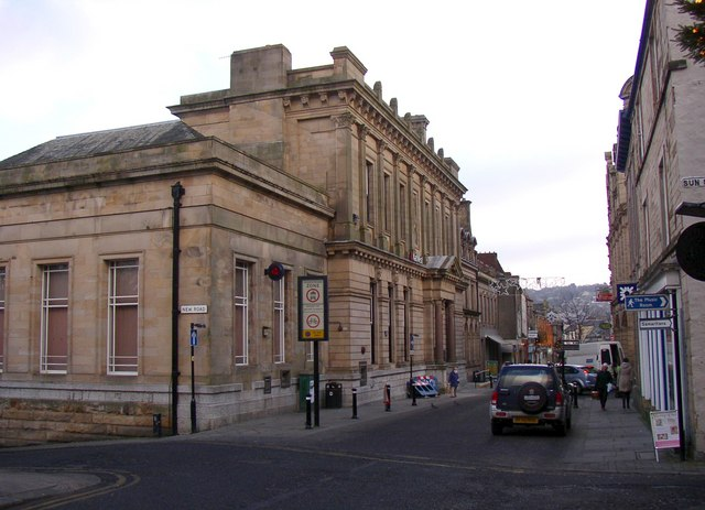 The District Bank, Church Street, Lancaster Now NatWest. A palatial building of 1870.